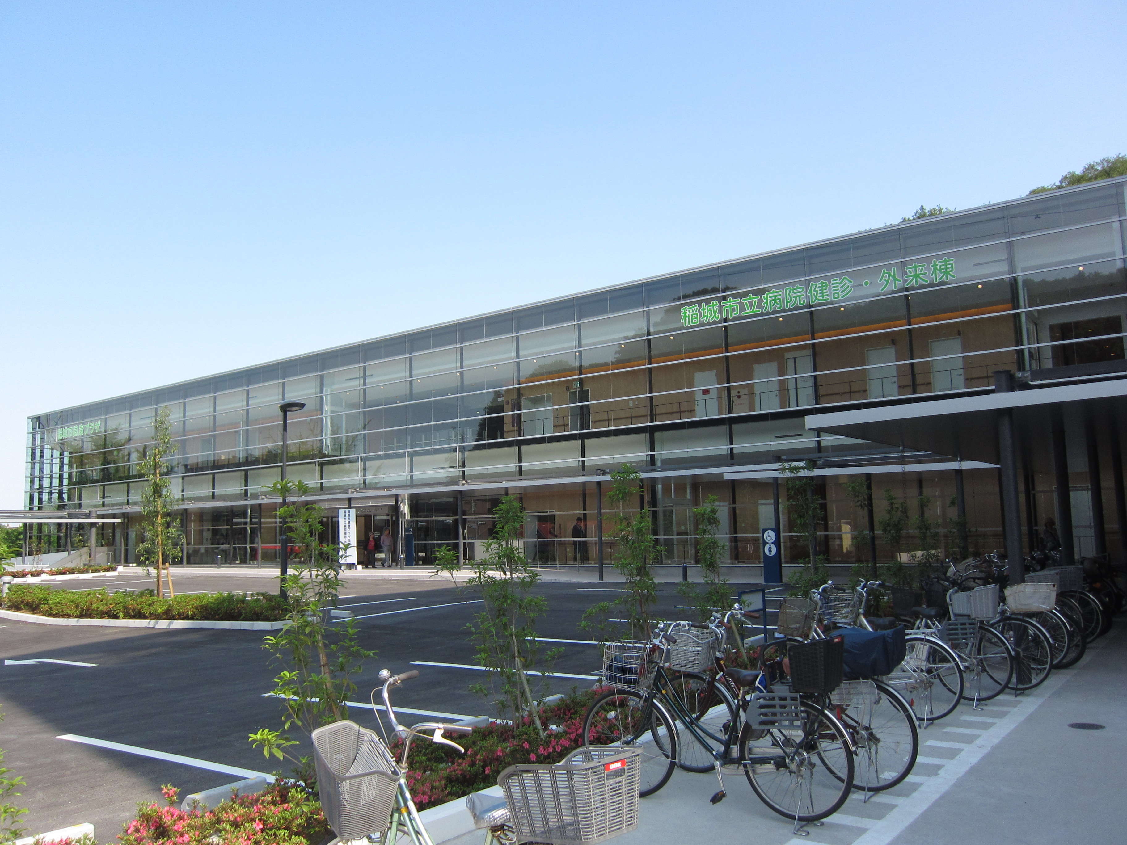 Inagi Municipal Hospital